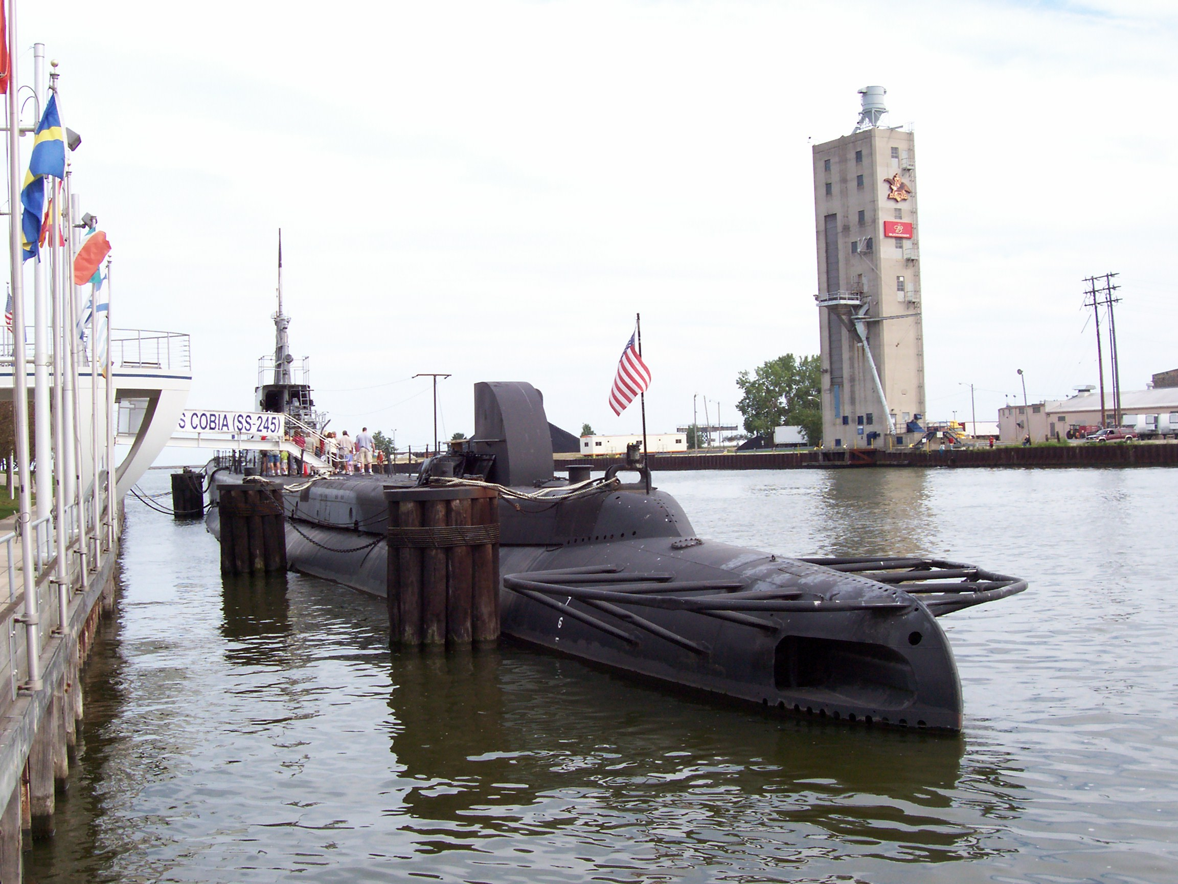 A picture of the U.S.S. Cobia docked at the Wisconsin Maritime Museum in Manitowoc, Wisconsin. This image was taken August 27, 2006 by User:Royalbroil Category:Images of Wisconsin